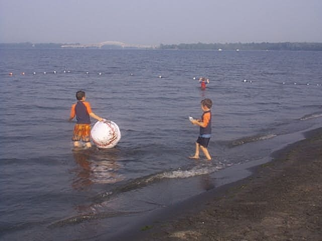 Taken by myself, Tzadik Vanderhoof, approx. Aug. 4, 2005, at Bulwagga Bay campsite beach, Port Henry, N.Y. Pictured are three of my sons. The Champlain Bridge is visible in the top background.